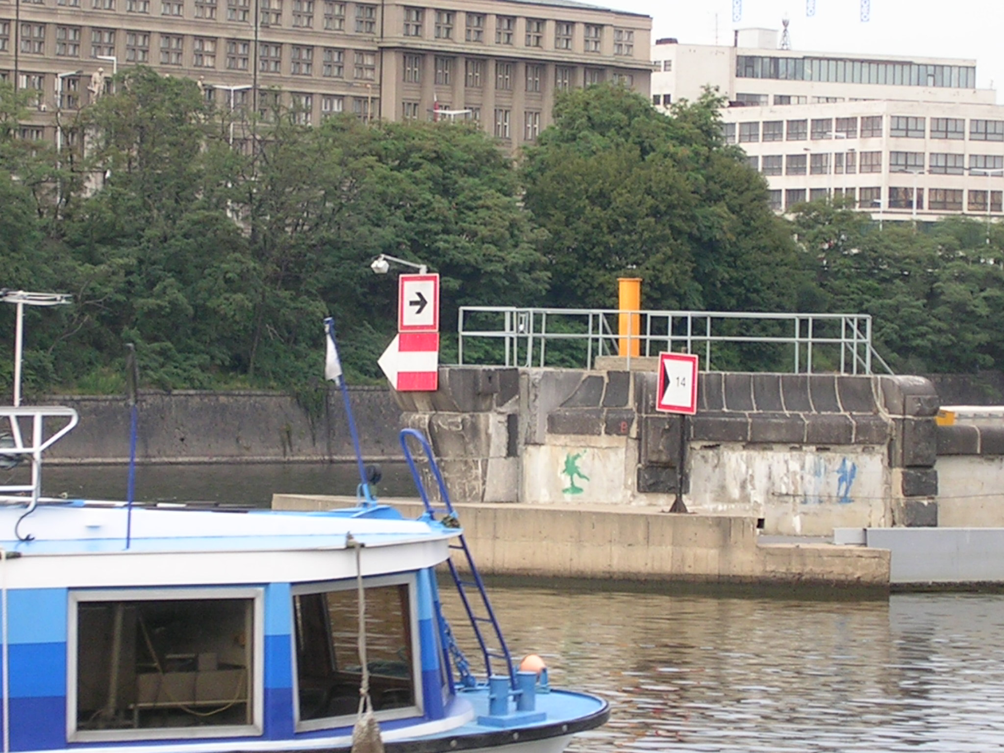 Prague, the Czech Republic. Štvanice Island.